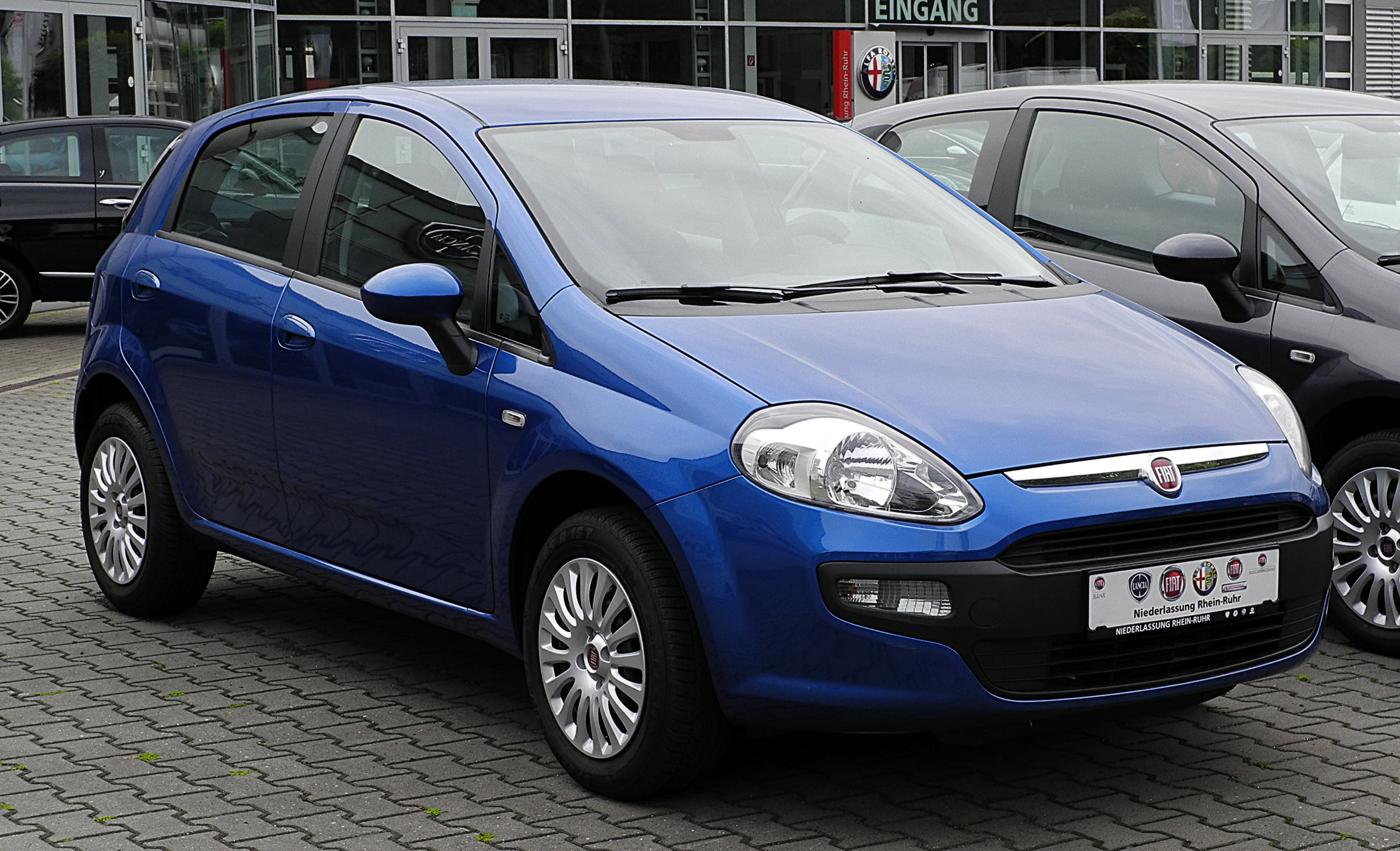 Fiat Punto Evo 1.4 8V Start+Stopp Dynamic (Facelift)